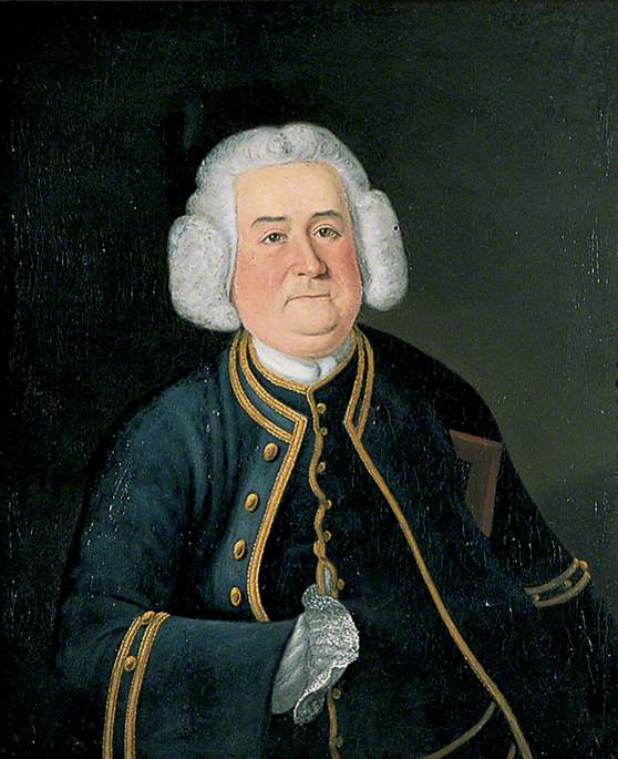 unknown artist; Captain William Boys; Sandwich Guildhall